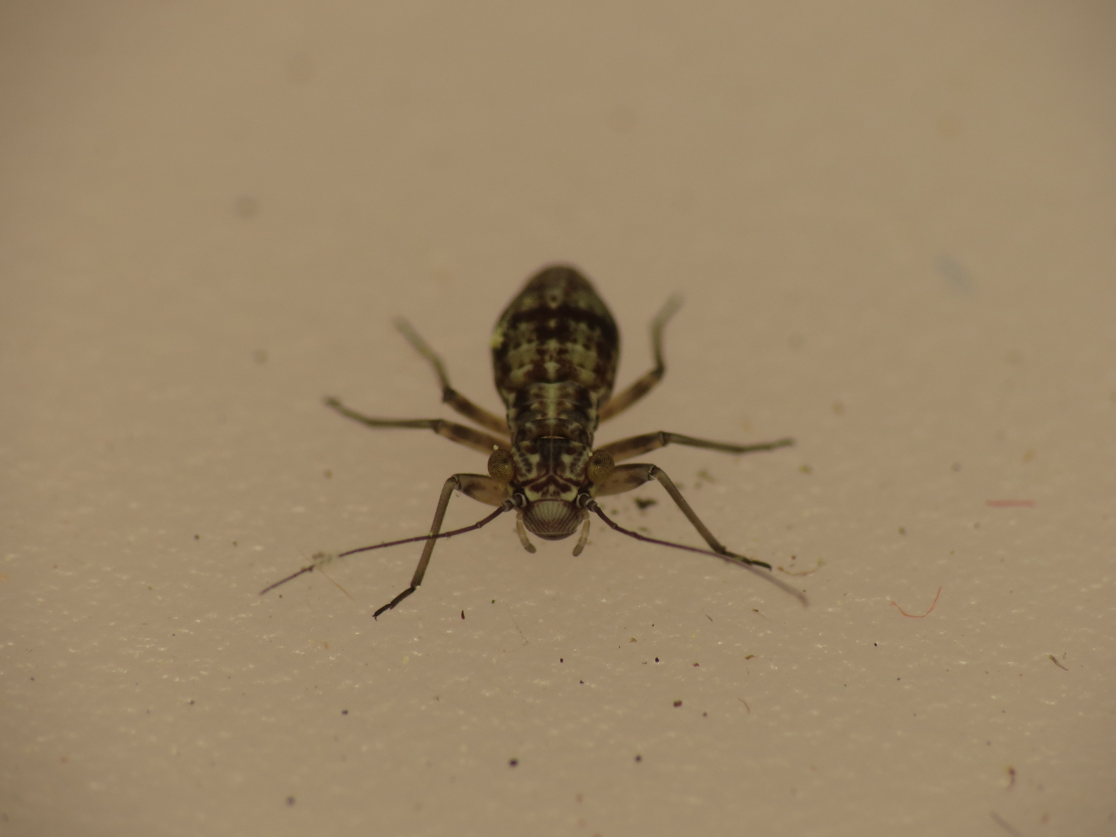 Mesopsocus sp., either M. immunis or M. unipunctatus, female, in Corylus avellana L., Søborg, Denmark, 31 May/1 June 2014